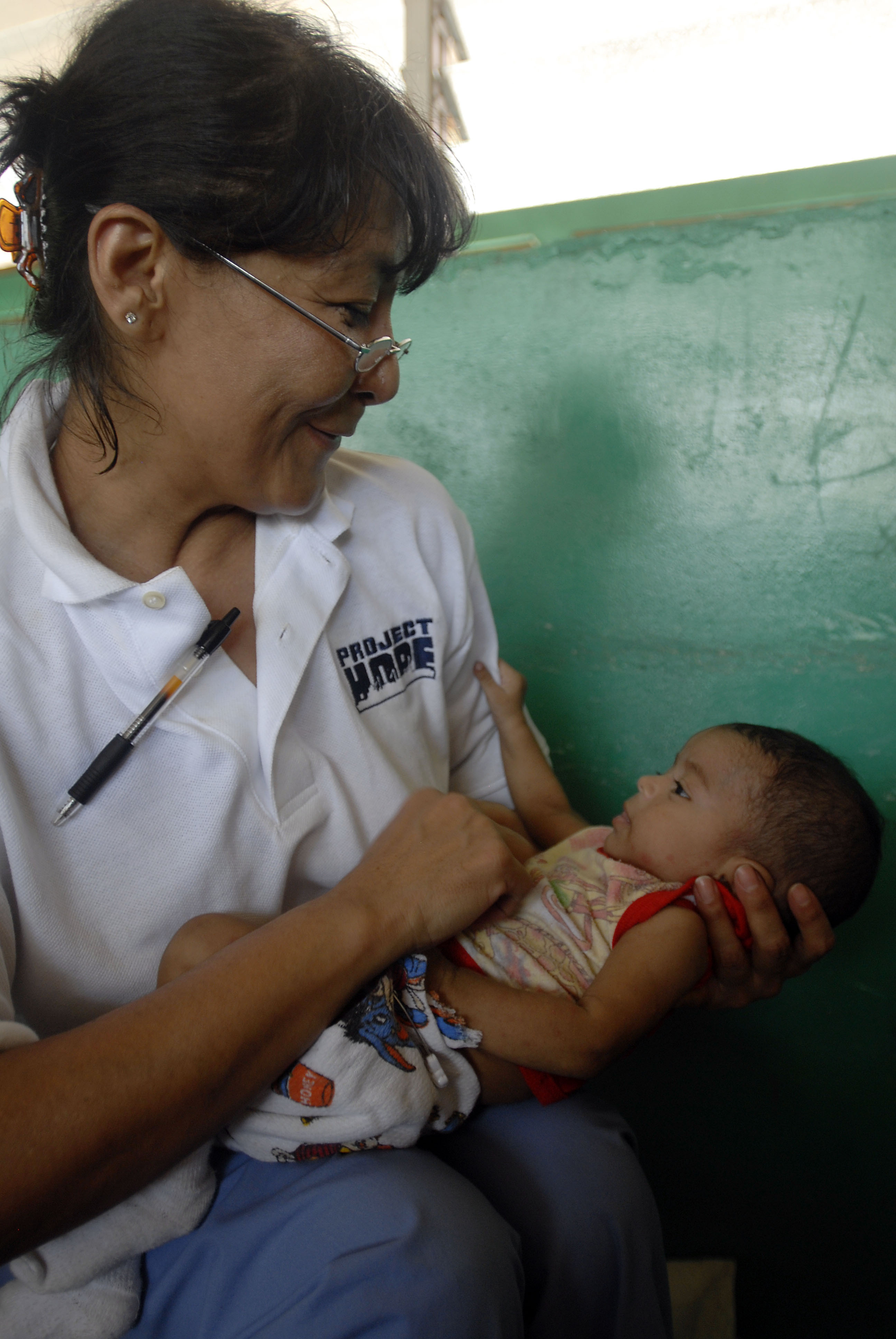 Project Hope volunteer Maria Rivera gives a medical exam to a newborn during a Continuing Promise 2008 medical humanitarian assistance project. The amphibious assault ship USS Kearsarge is the primary platform for the Caribbean phase of Continuing Promise, an equal-partnership mission involving the United States, Canada, the Netherlands, Brazil, Nicaragua, Panama, Colombia, Dominican Republic, Trinidad and Tobago and Guyana.